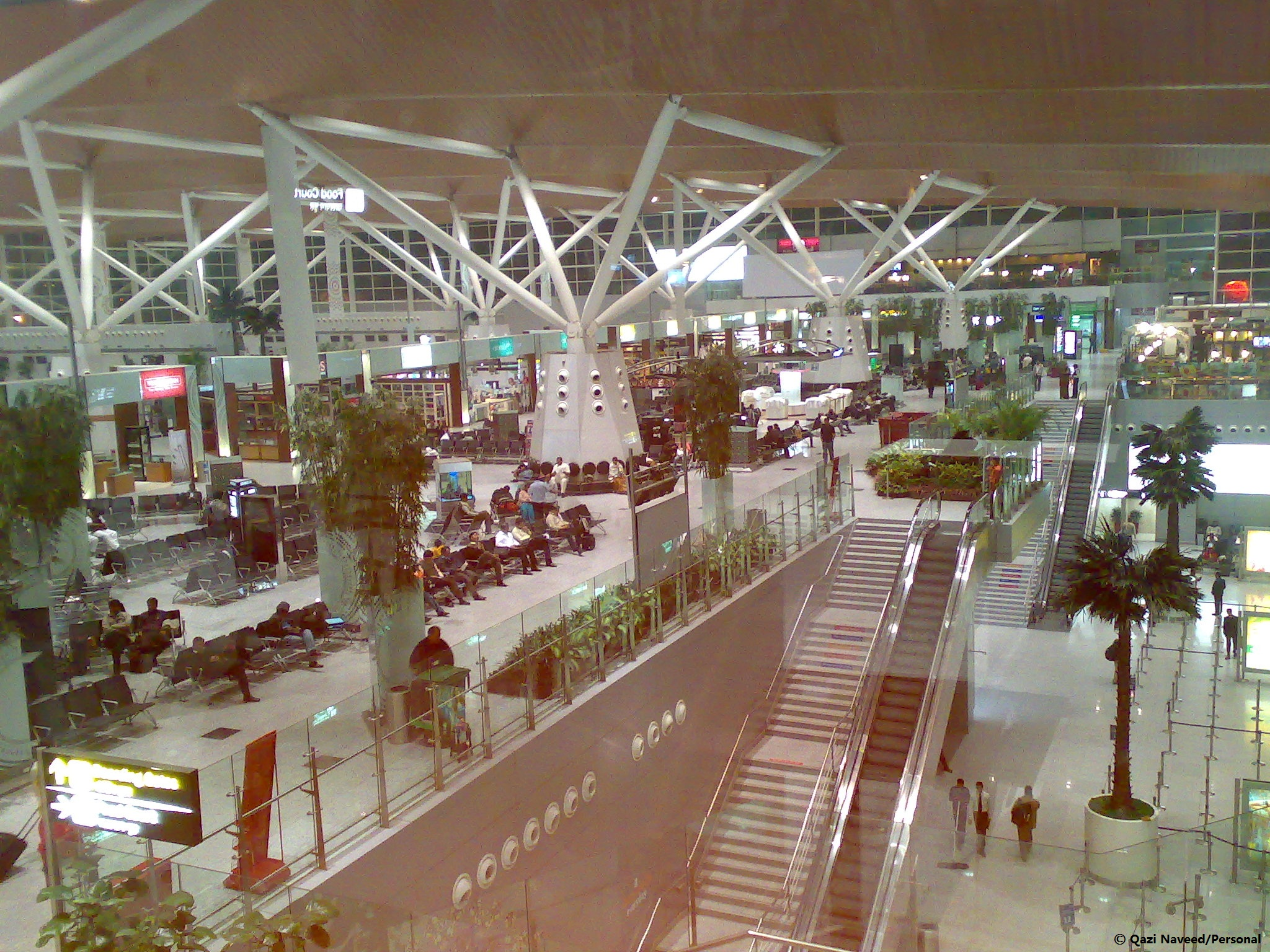 Delhi IGI T-1D for domestic Departure (Photo By Naveed 2010)